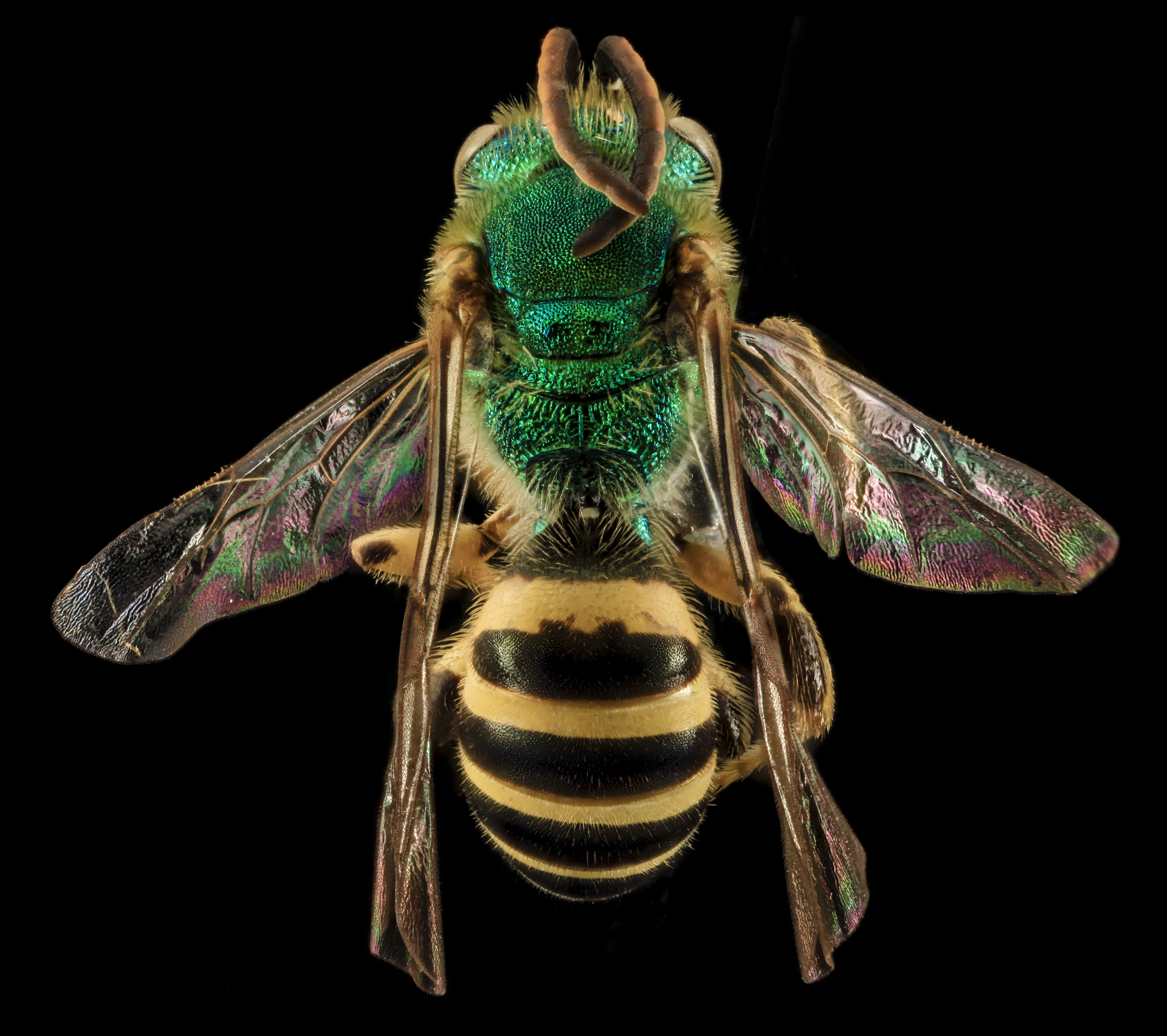 Male Agapostemon's almost all have this same pattern, Metallicy green on the head and thorax and then striped yellow and black on the abdomen. Females uniformly don't have yellow anywhere. Why is good question as this male yellowness syndrome runs throughout the bee kingdom, cutting across families. Thistle Droege did the photoshoping and Wayne Boo the photography. Photography Information: Canon Mark II 5D, Zerene Stacker, Stackshot Sled, 65mm Canon MP-E 1-5X macro lens, Twin Macro Flash in Styrofoam Cooler, F5.0, ISO 100, Shutter Speed 200